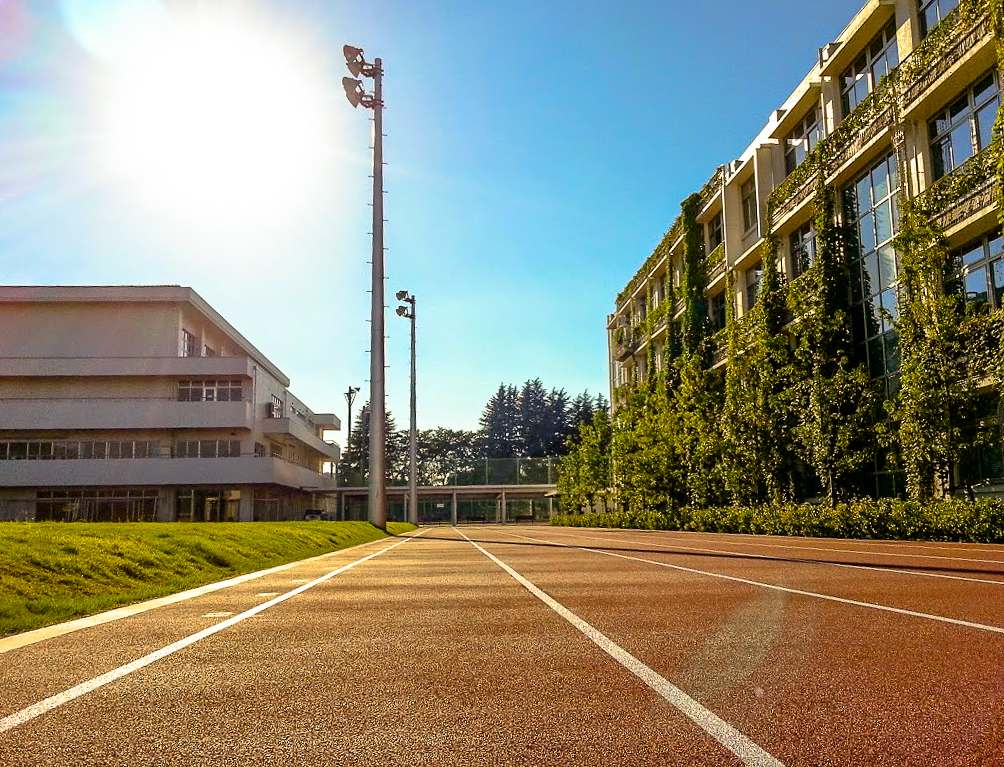 Athletic facility and football (soccer) field